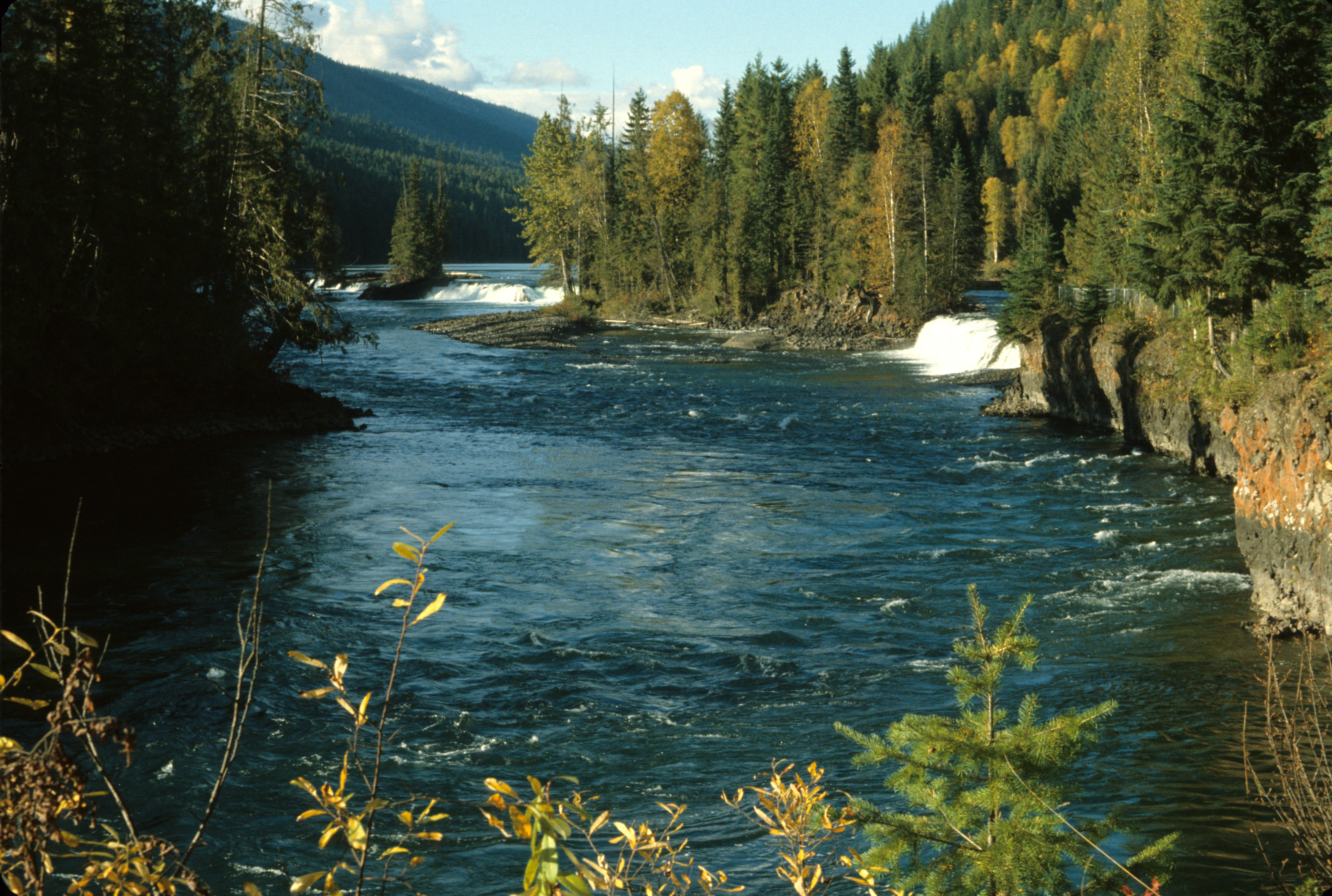 Clearwater River and Osprey Falls at outlet of Clearwater Lake, British Columbia.